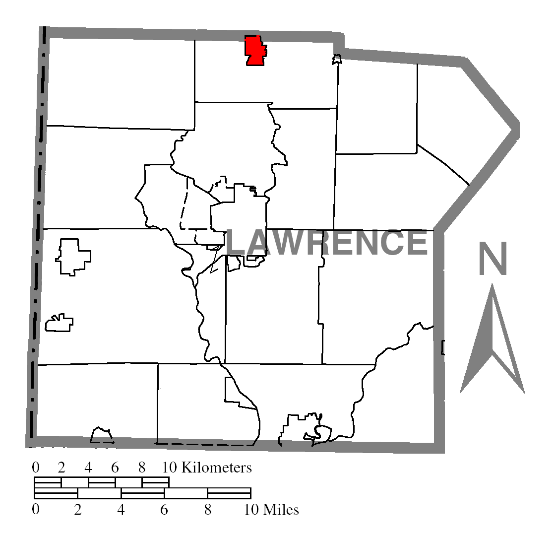 Map of Lawrence County higlighting New Wilmington.